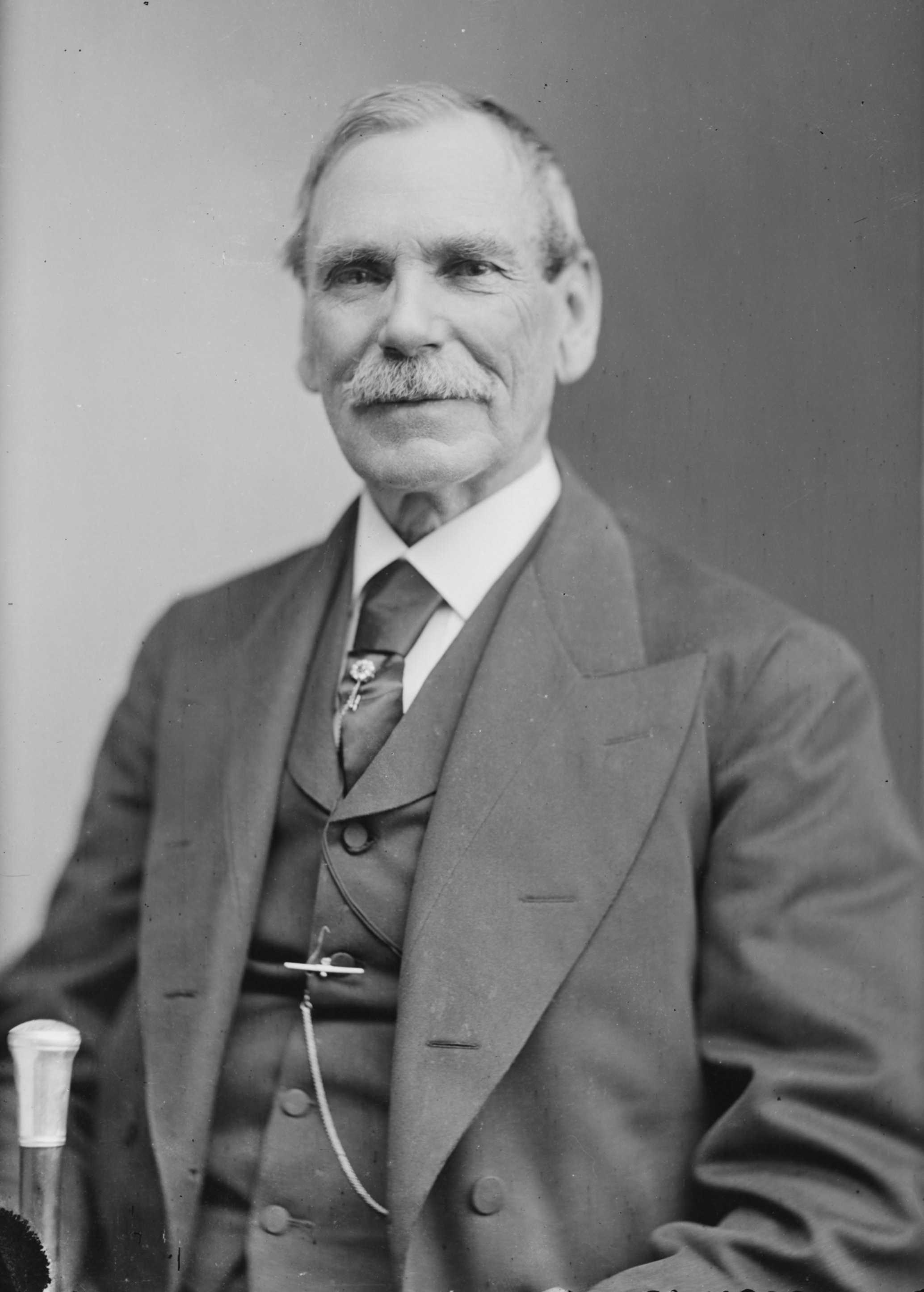 James Shields ( May 10, 1806 – June 1, 1879) was an American politician and U.S. Army officer who was born in Altmore, County Tyrone. Shields, a Democrat, is the only person in United States history to serve as a U.S. Senator for three different states. Shields was a senator from Illinois 1849 to 1855, from Minnesota from May 11, 1858 to March 3, 1859, and from Missouri from January 27, 1879 to March 3, 1879. Library of Congress description: "Shields, General James, (not in uniform)".